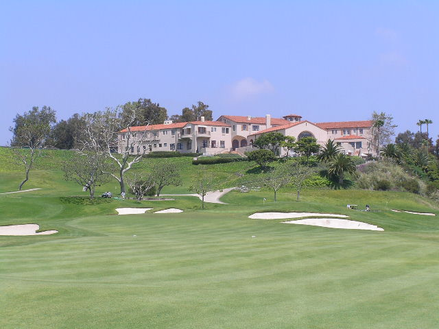 9th hole at the Riviera Country Club in Pacific Palisades, California